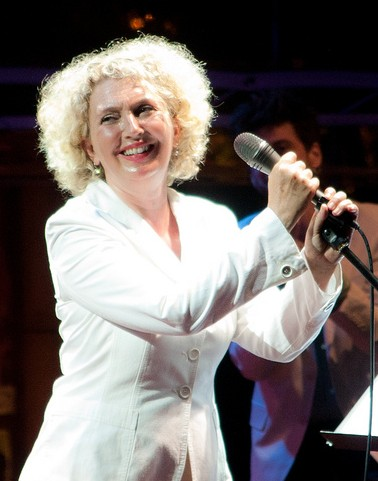 Rossana Casale “Official Photo Book”